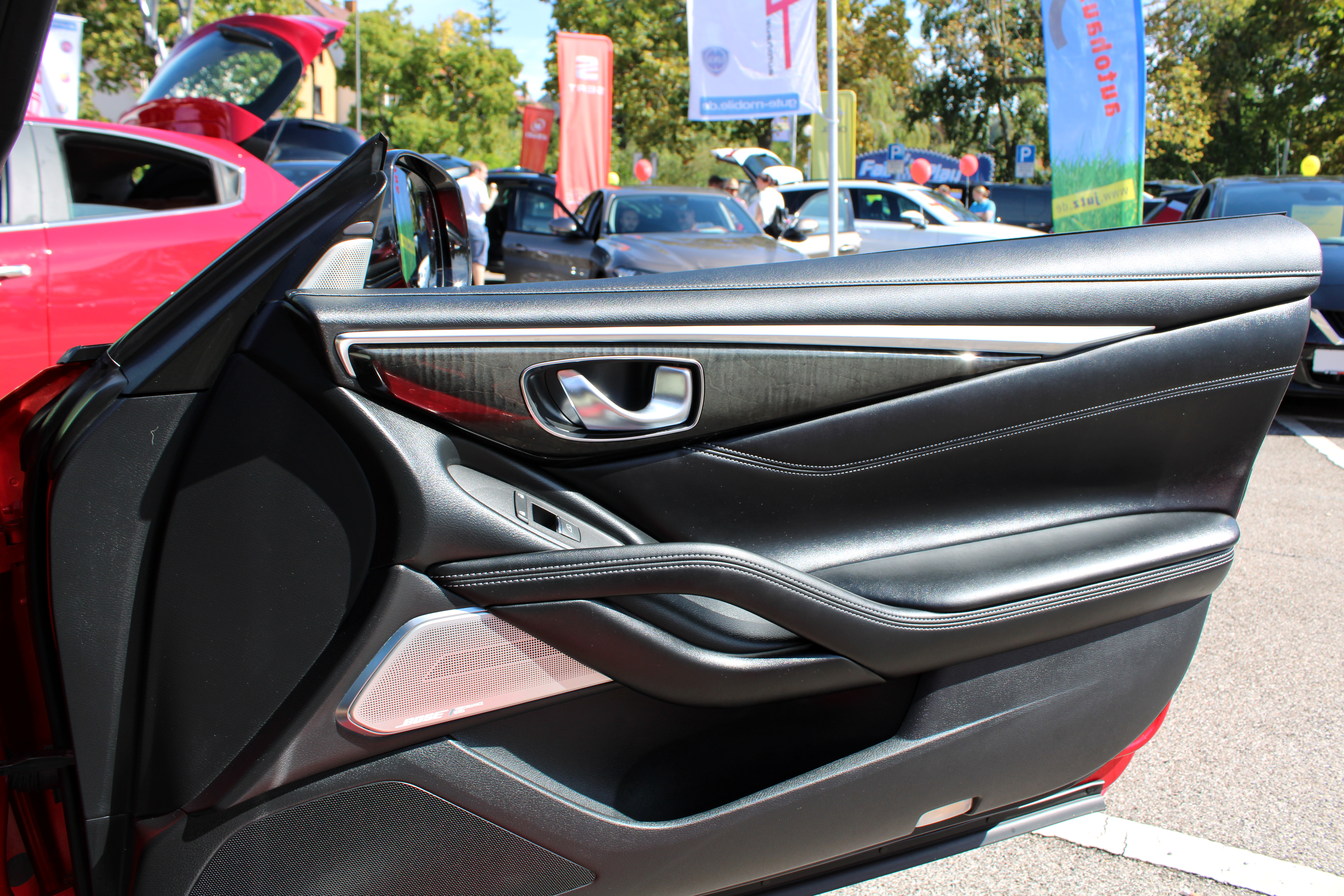 Infiniti Q60 (V37)